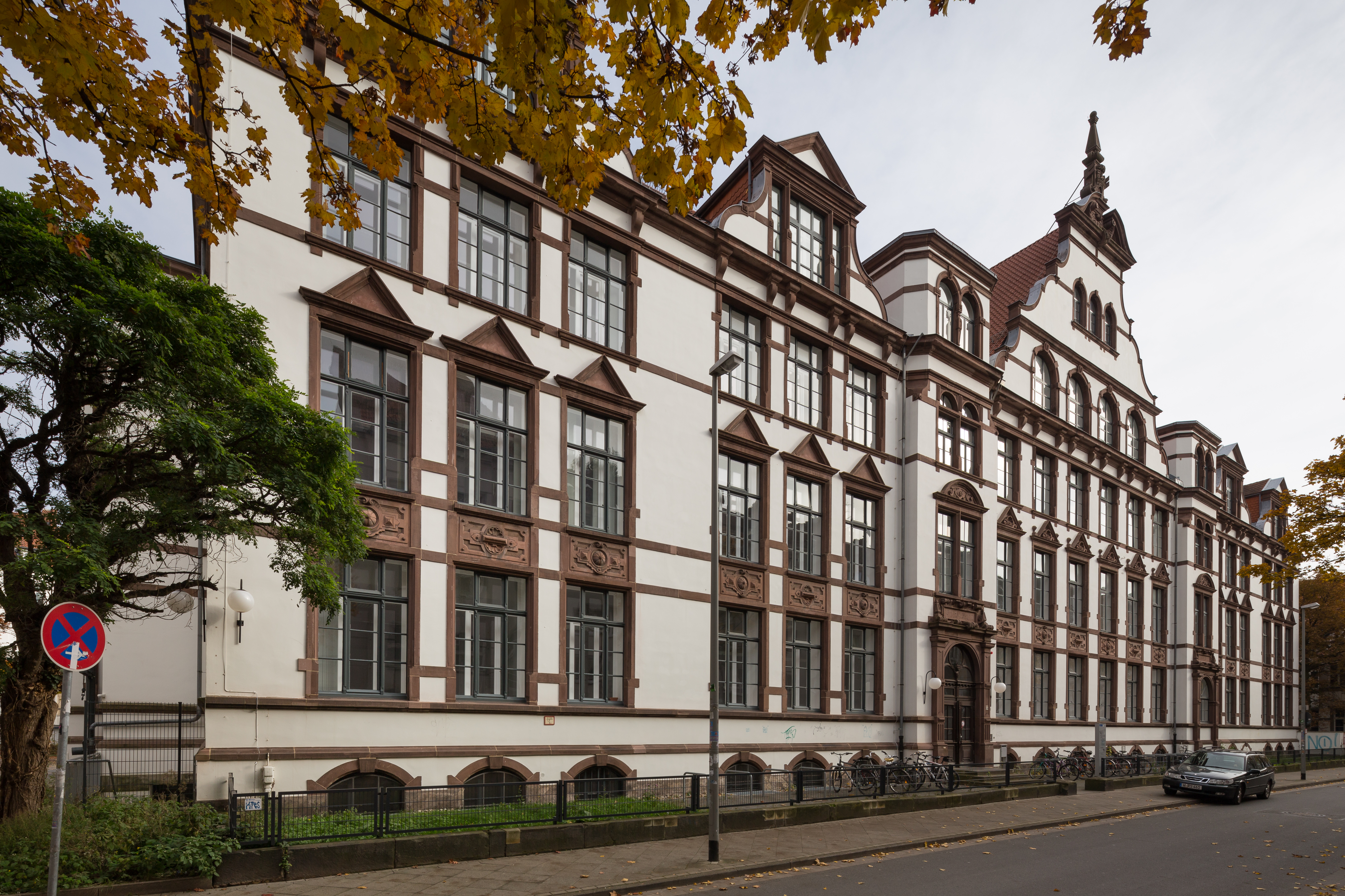 Former secondary modern school located at Am Kleinen Felde no. 30 in Nordstadt quarter of Hannover, Germany.